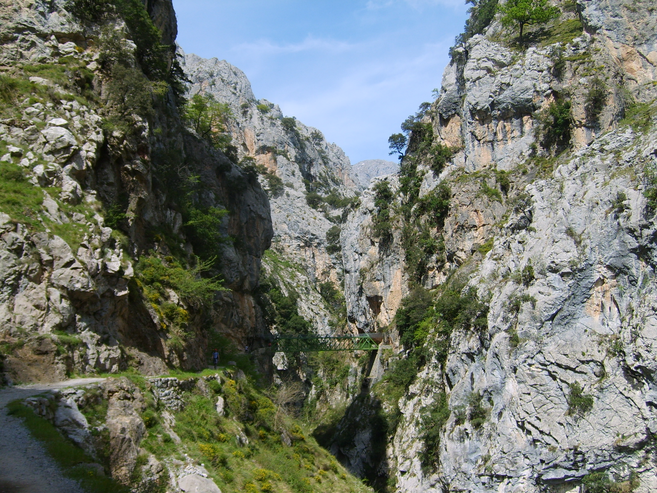 Ruta del Cares Gorge picture with bridge